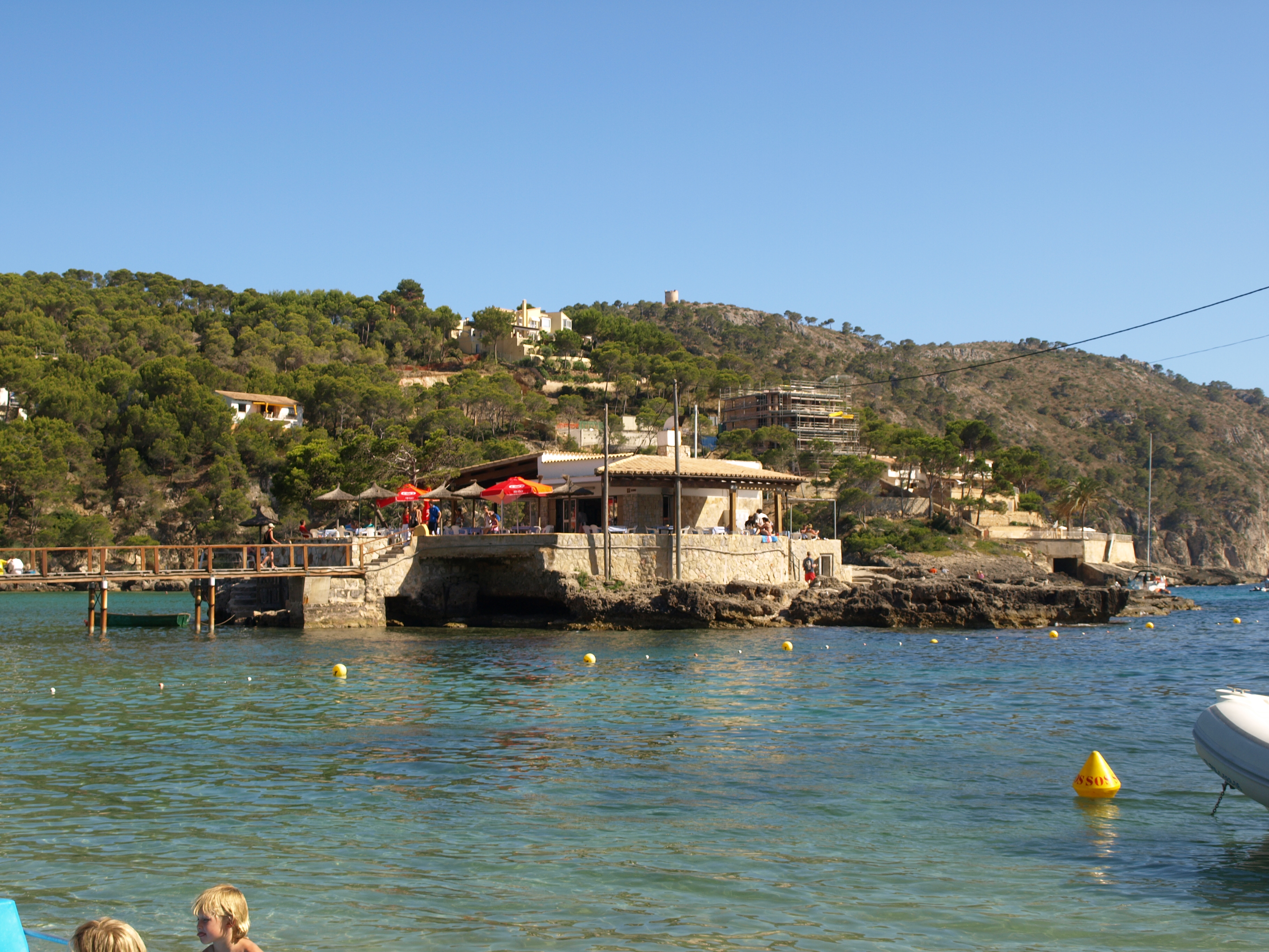 Restaurant on little island at Camp de Mar Place Lloc/Place: Es Camp de Mar, Andratx